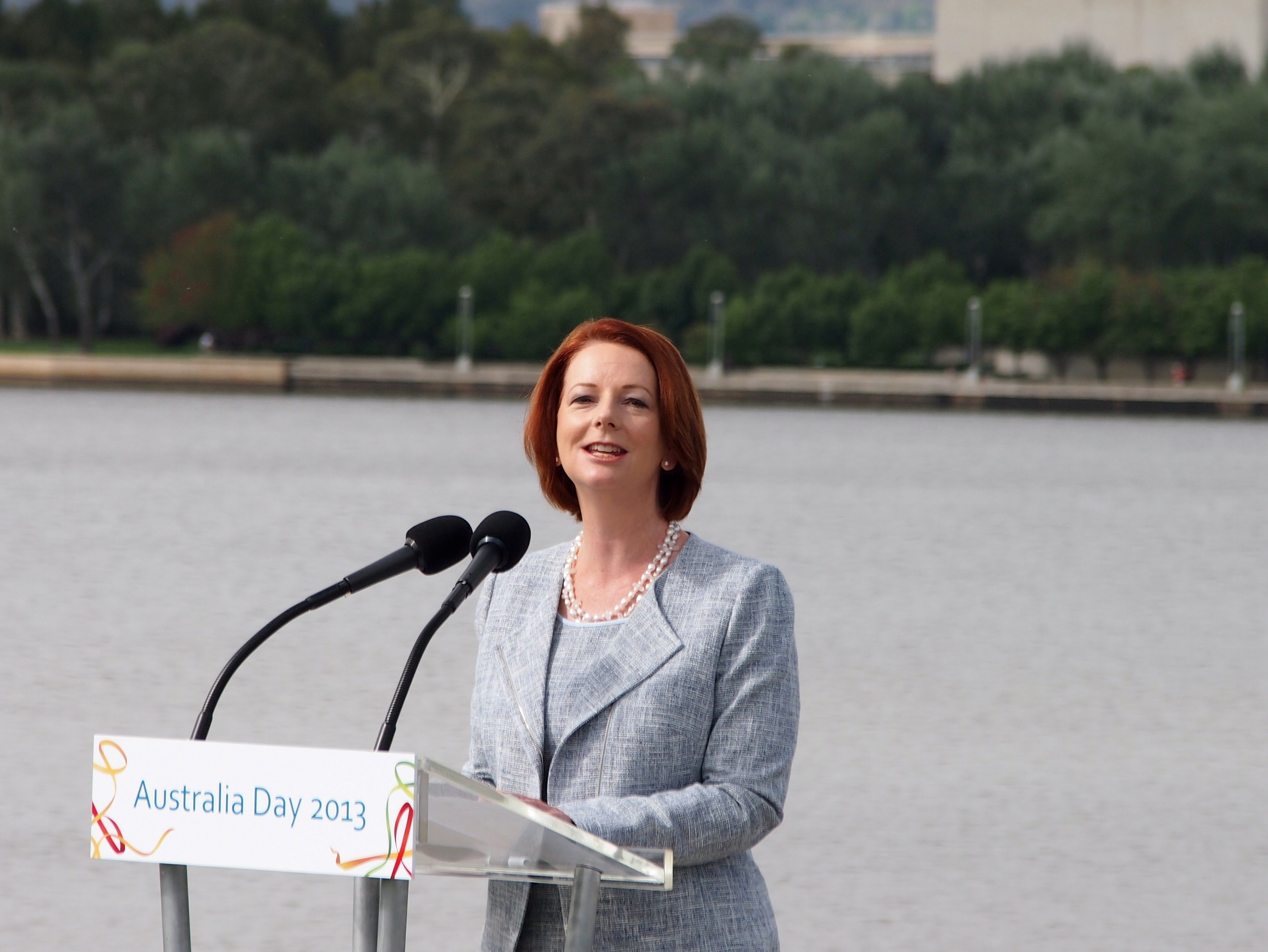 Julia Gillard speaking at the 2013 National Flag Raising and Citizenship ceremony